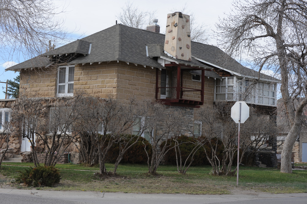 Photo of Alex Halone House, Thermopolis, Wyoming